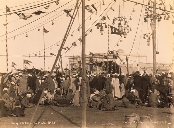 "Groups of believers at Mawlid (no. 78)"